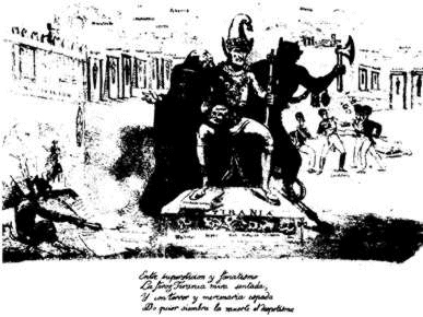 Cartoon La Tiranía, thought to be the first political cartoon published in Mexico, from El Iris (1826)